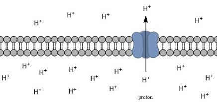 I created this image of a membrane pH gradient, with embedded transporters